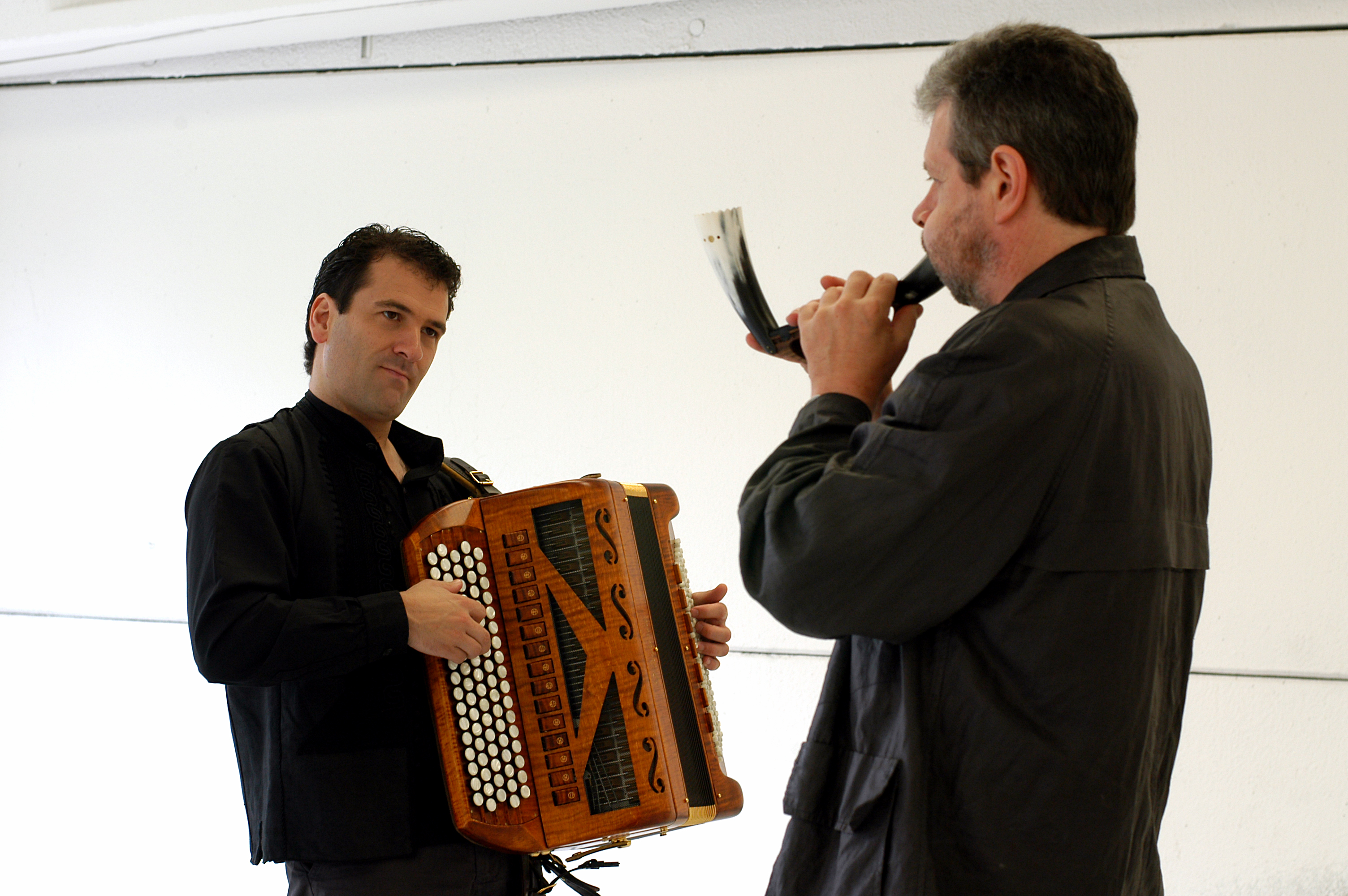 Joxan Goikoetxea & Alan Griffin. Photo by: Ander Gillenea.